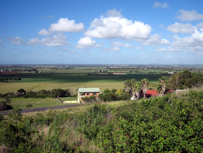 View from Hummock Hill in Bundaberg looking away from Bargara, Queensland.